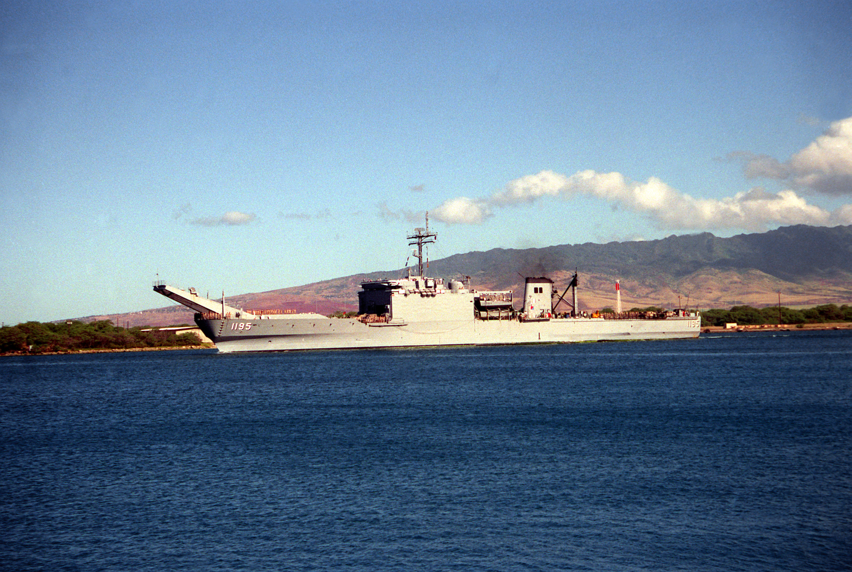 The tank landing ship USS BARBOUR COUNTY (LST-1195) departs Naval Station, Pearl Harbor, to return to Naval Station, San Diego, Calif., following its deployment to the Persian Gulf region for Operation Desert Shield and Operation Desert Storm.